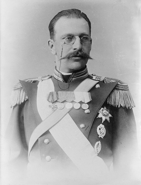 Georg Aleksandr Mecklenburg-Strelitz